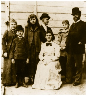 Czech composer Antonín Dvořák (1841-1904) with his friends and family in New York, USA.